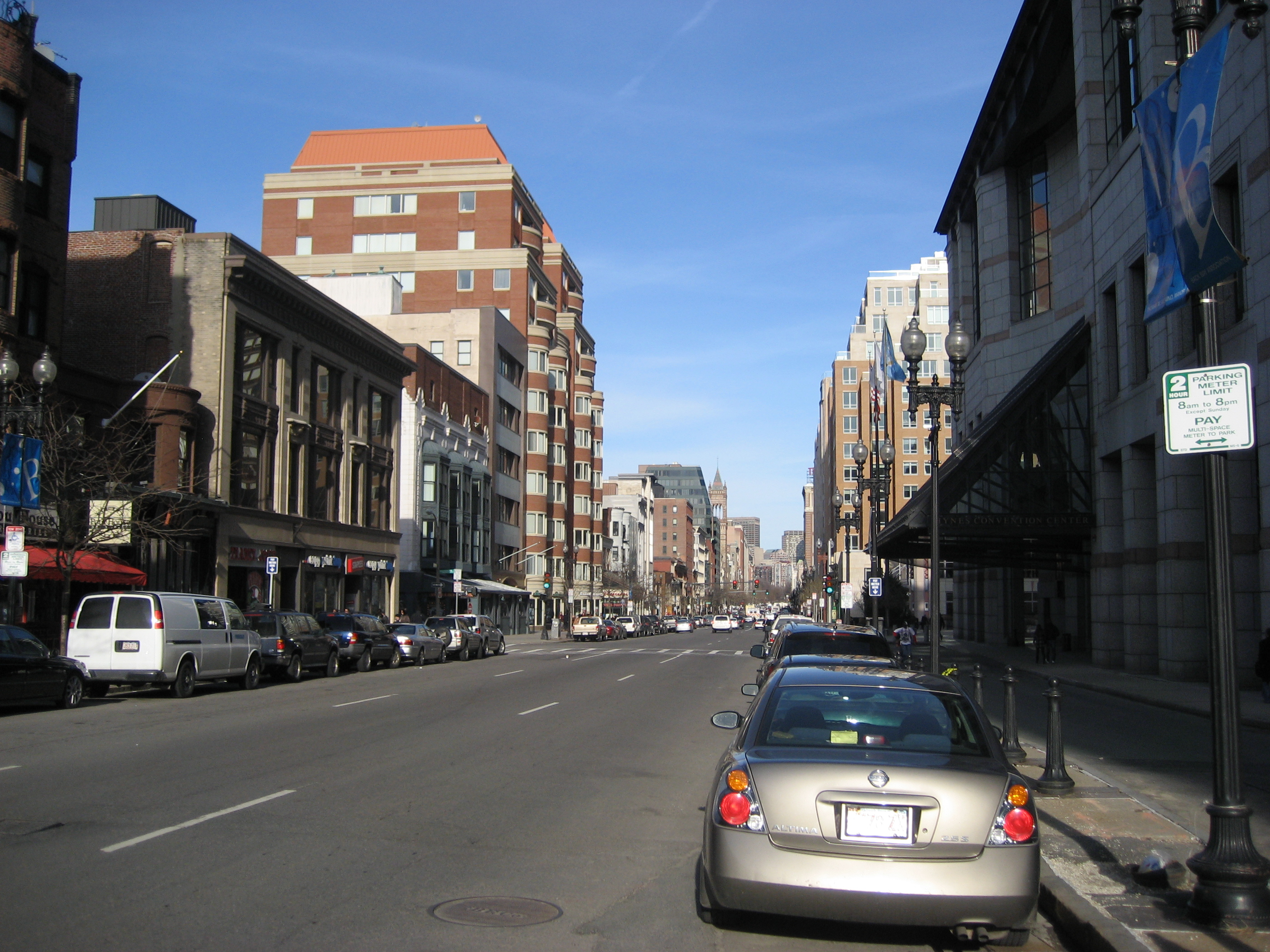 View up Boylston Street